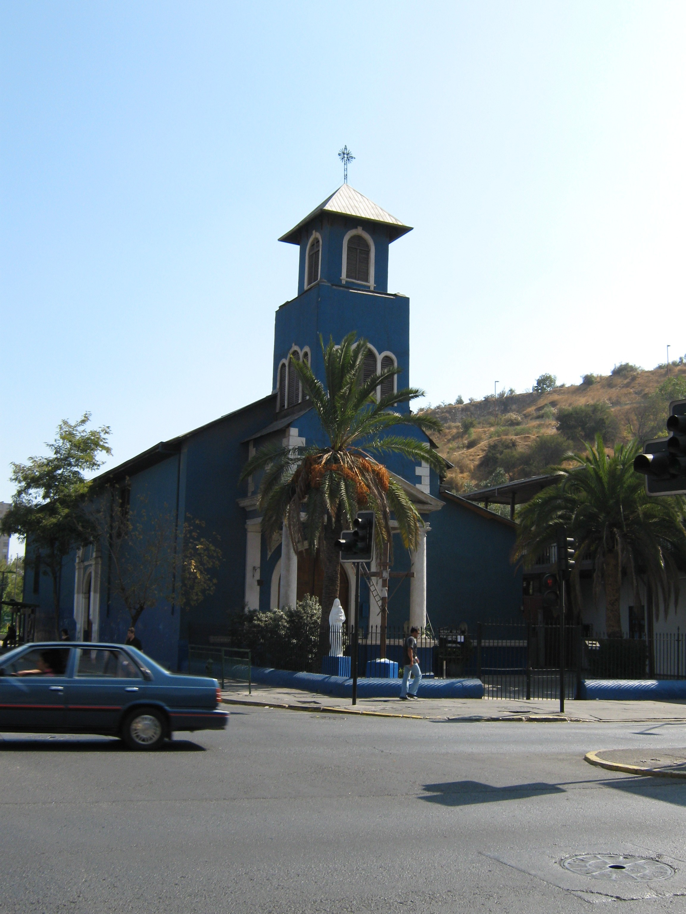 Monterrat Church or La Viñita (little vineyard) in Recoleta, Santiago de Chile